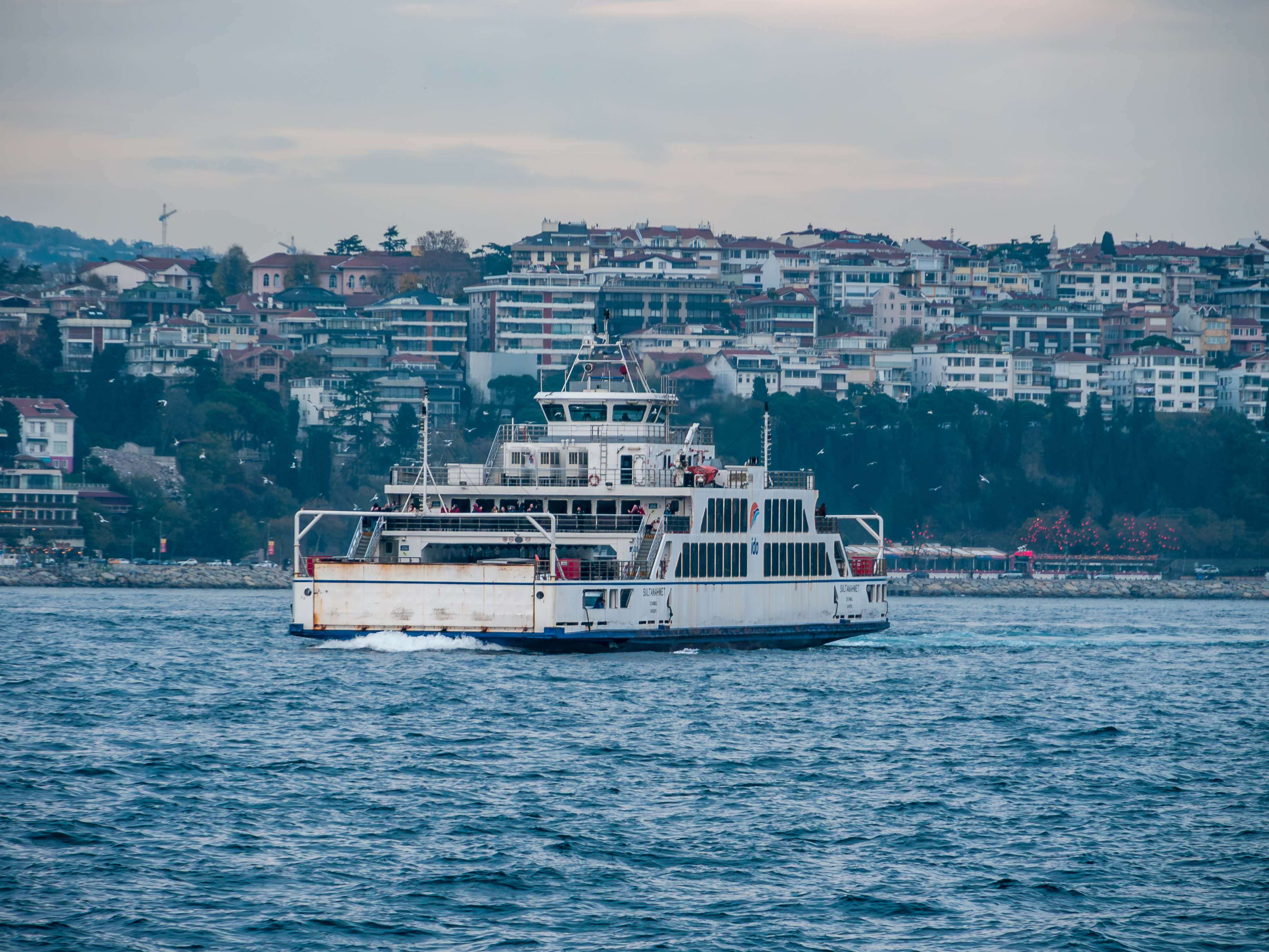 Bosphorus in Istanbul